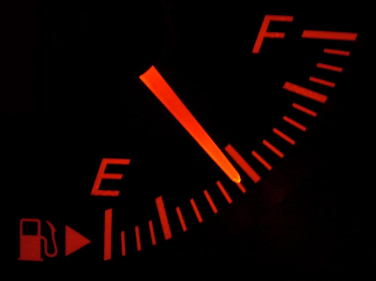 Fuel gauge